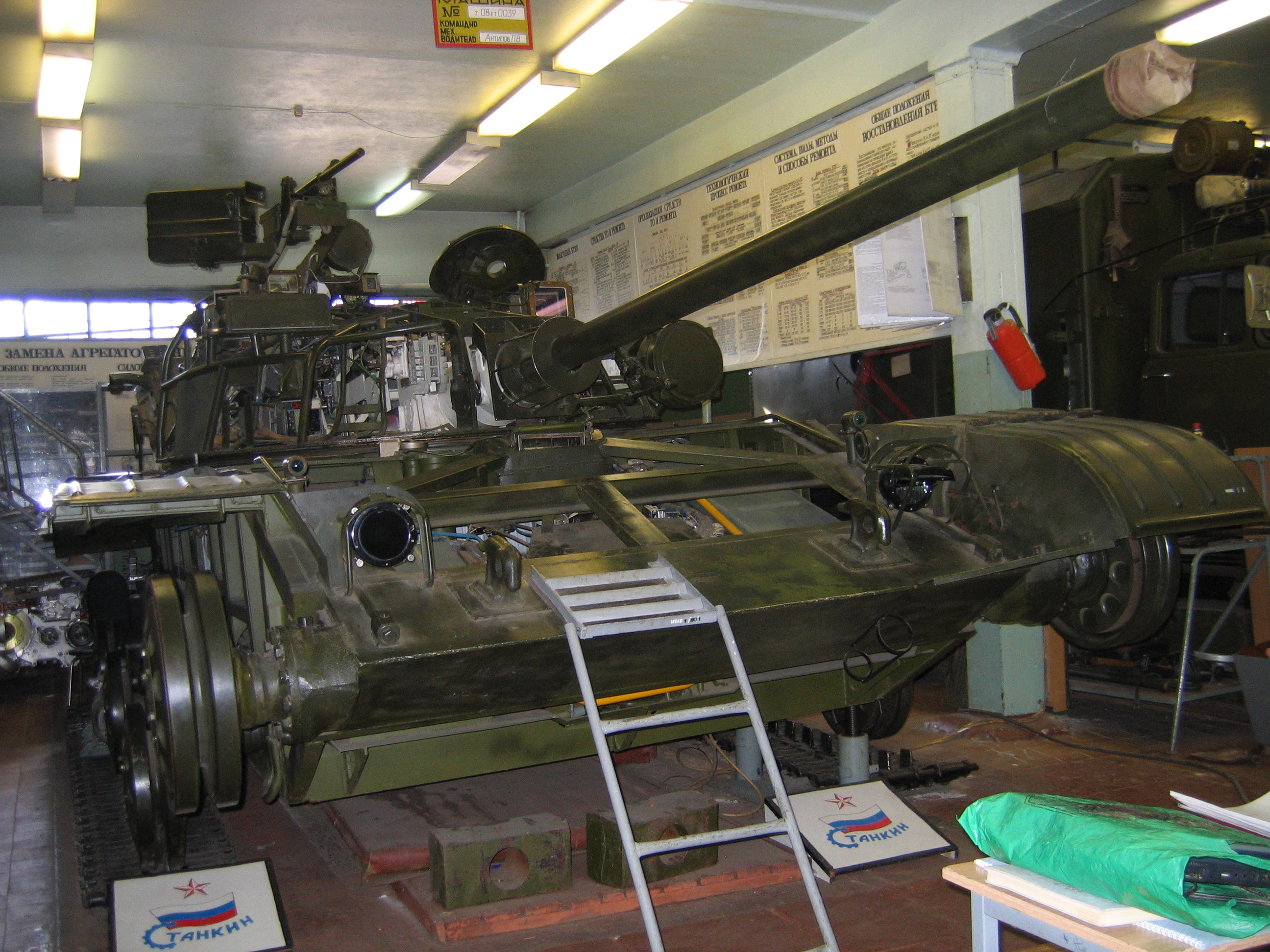 T-64 UDS (Educational stand)